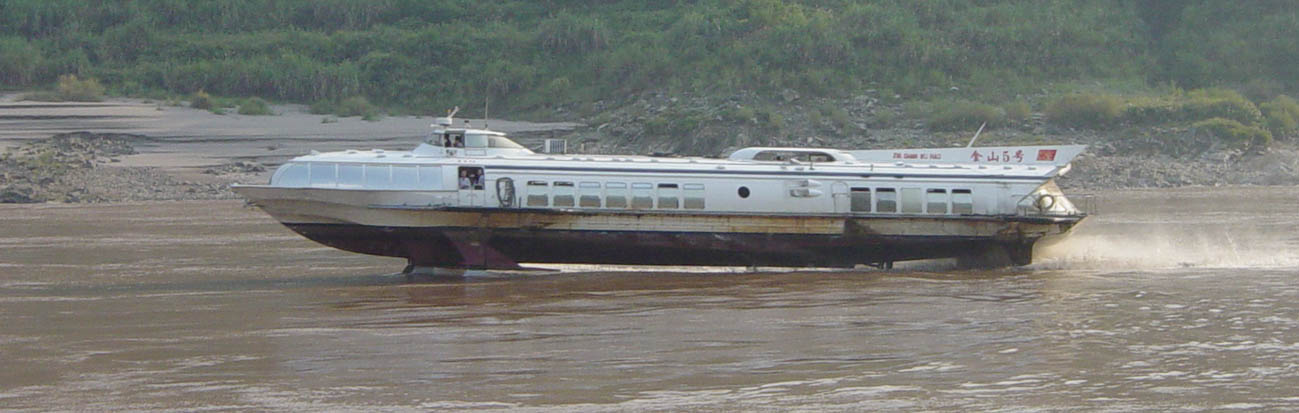 Meteor hydrofoil on Yangtze River (Chang Jiang). Image taken late September, 2002 by User:Leonard G.